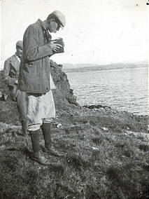 Canon Macleod Of Mitford, Northumberland: Photographic Images. Northumberland County Archives Service NRO 00876/39 Glass slide of Elen or Eilan Harlosh (Harlosh Island). Norman Heathcote preparing to photograph with box camera. Date nd. [c.1900]